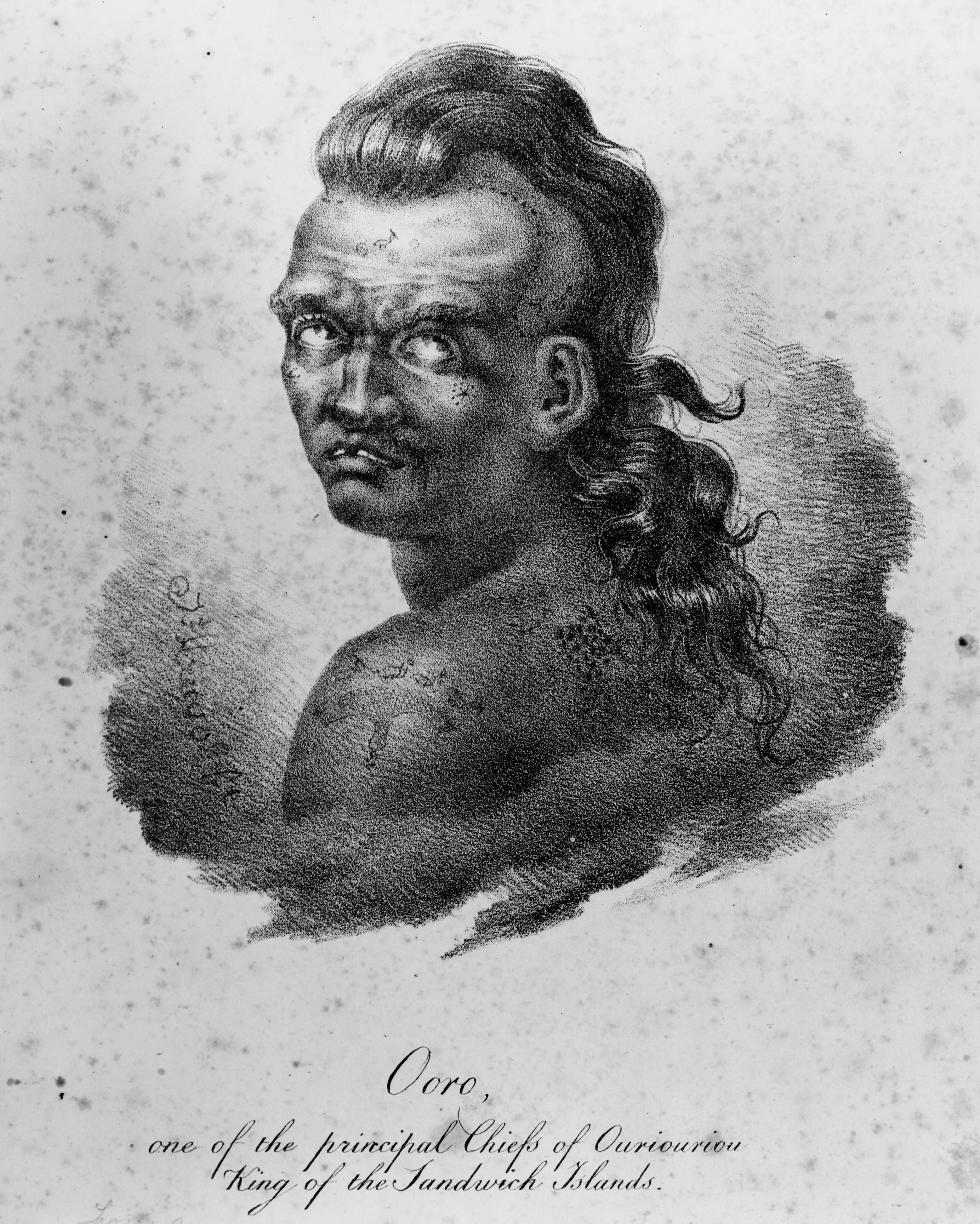 Arago, Jacques Etienne Victor, 1790-1855 :Ooro, one of the principal chiefs of Ouriouriou. King of the Sandwich Islands. [1823]. Reference Number: A-112-011. Head and shoulders portrait of a Hawaian chief, possibly from Oahu, his back and shoulder to the viewer, his head twisted round, his eyes raised. He has tattooing on his face and back and a front tooth missing (an initiation rite).